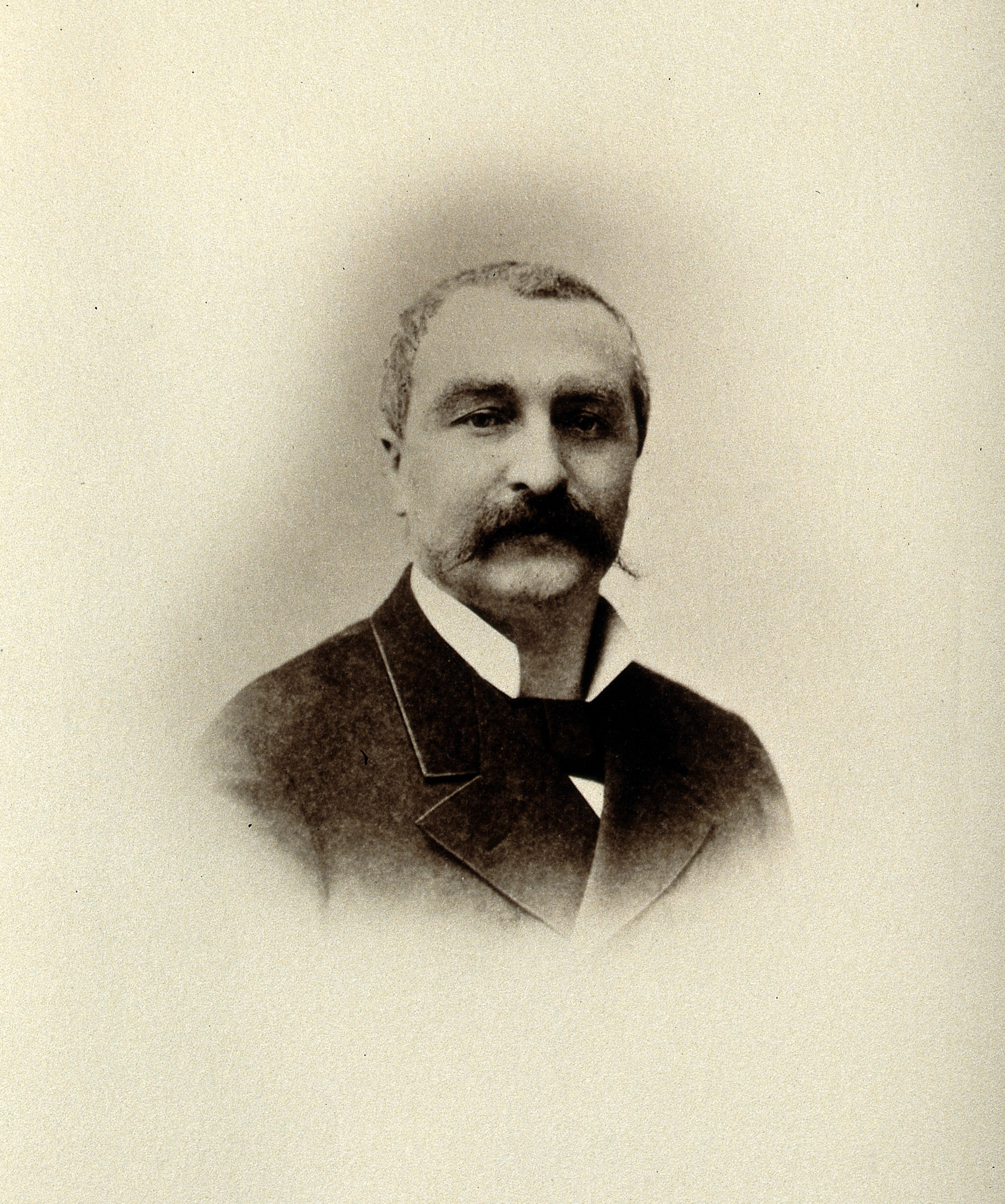 Octave Roch Simon Terrillon. Photograph, 1889. Iconographic Collections Keywords: portrait photographs